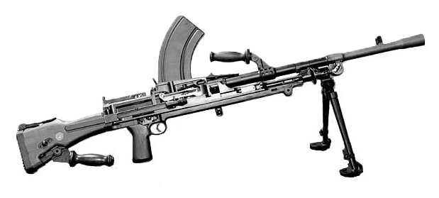 Finished Bren gun sitting on a table top at the John Inglis Co. Bren gun plant